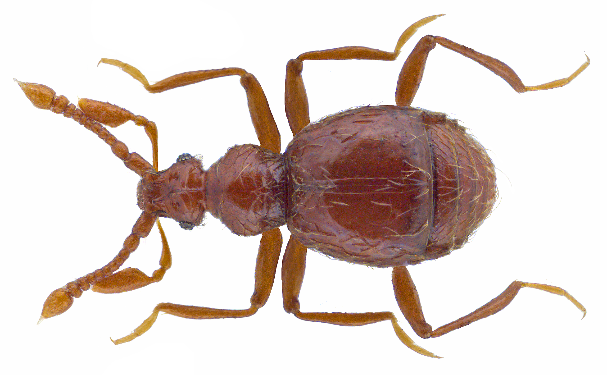 Family: Pselaphidae Size: 1,5 mm Location: Greece, Corfu, Paxos, Gaios leg. J.Scheuern, 17.IV.1981; det. Brachat, 2007 Photo: U.Schmidt, 2013